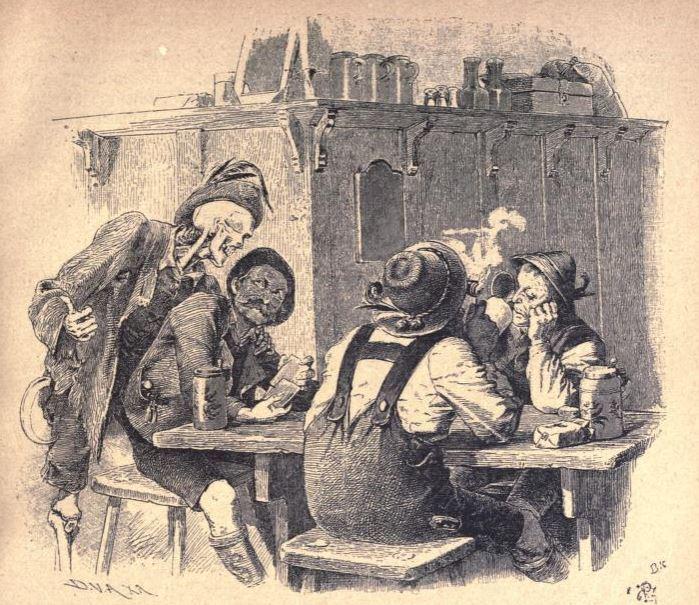 Illustration for 'Gambling Hansel' from 'Grimm's Fairy Tales' c1890